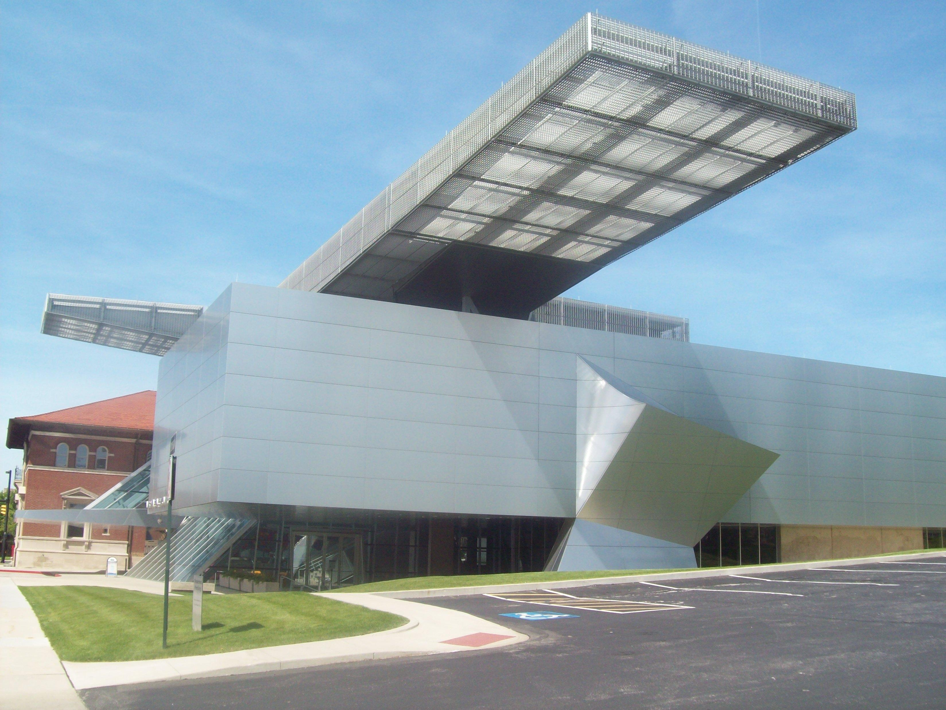 Akron Ohio Art Museum